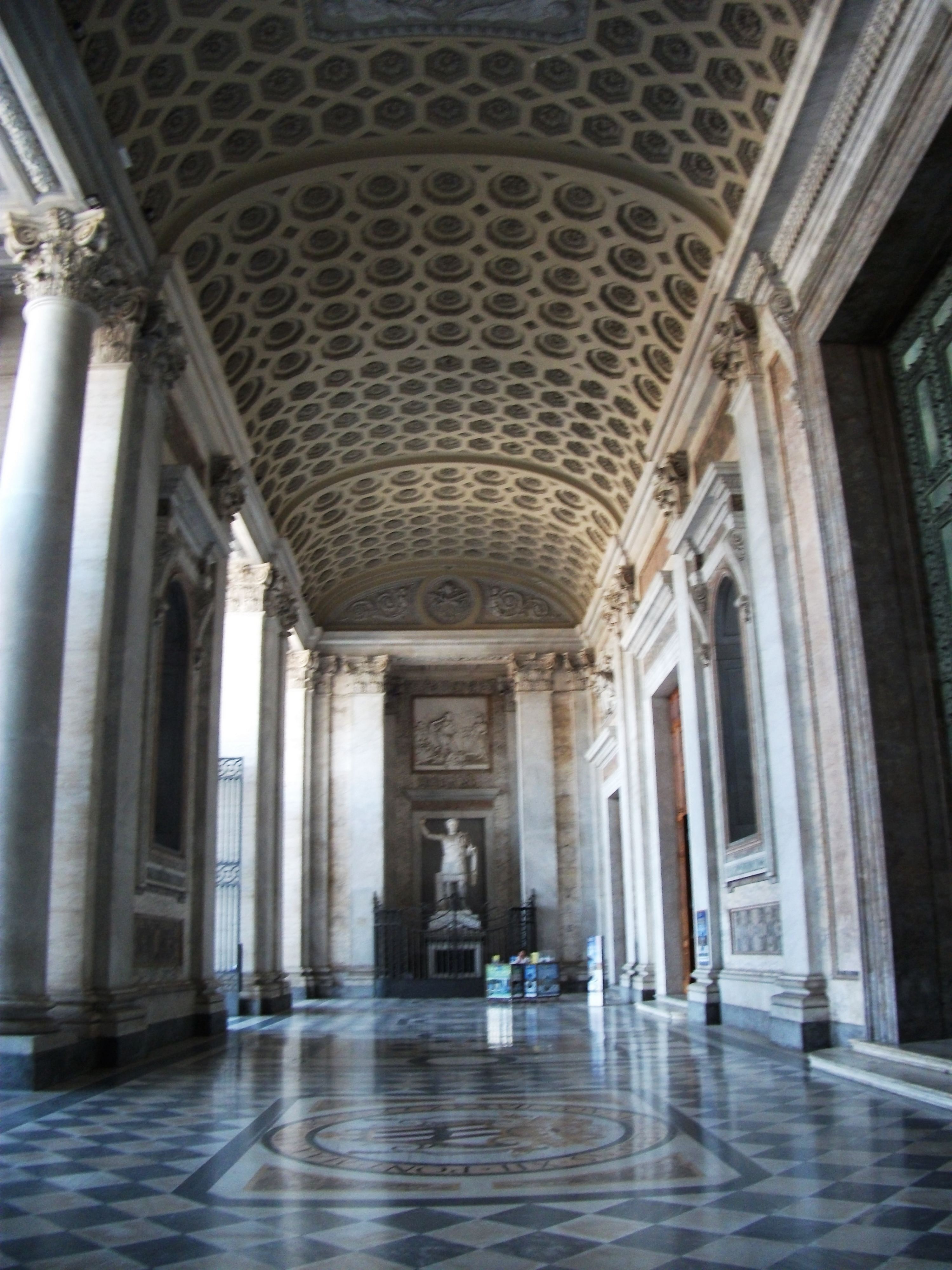 San Giovanni in Laterano (Rome)